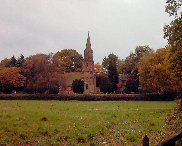 View across a field at Little Aston, Staffordshire, England, to St Peter's parish church